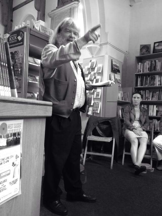 Malcolm Guite (b. 1957), English poet, Anglican priest, singer-songwriter, educator at a poetry reading